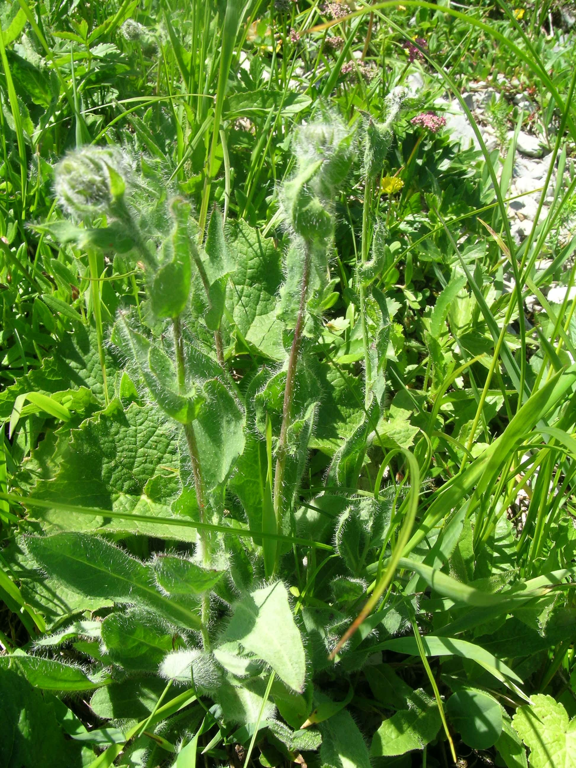 Hieracium villosum Quelle: own photograph, Schynige Platte (Switzerland, Kanton Bern) Thomas Mathis Date: 14.7.05